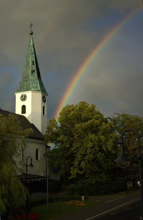 Rainbow in Gänserndorf